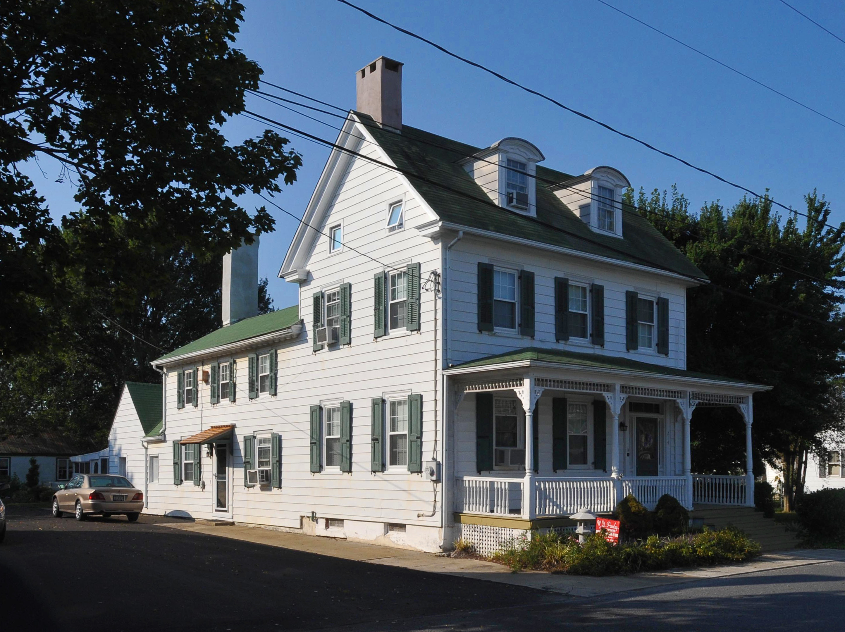 Alexander Laws House 1820-1830; LAWS WAS A FARMER AND NOT ASSOCIATED WITH WATER-ORIENTED TRADE